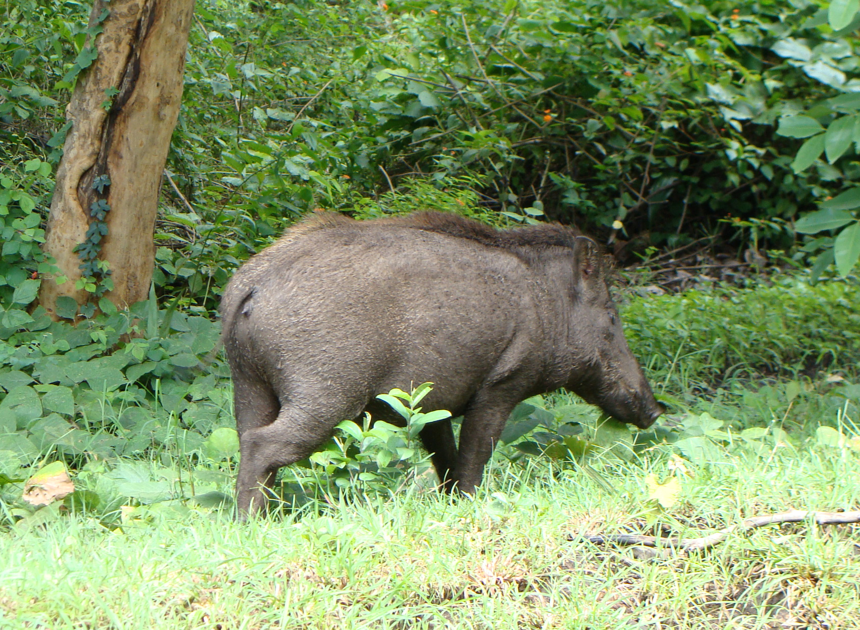 Indian Wild Boar (Sus scrofa cristatus) in Mudumalai National Park, Tamil Nadu, India. It sits on the road from Udhagamandalam (Ooty) to Mysore.